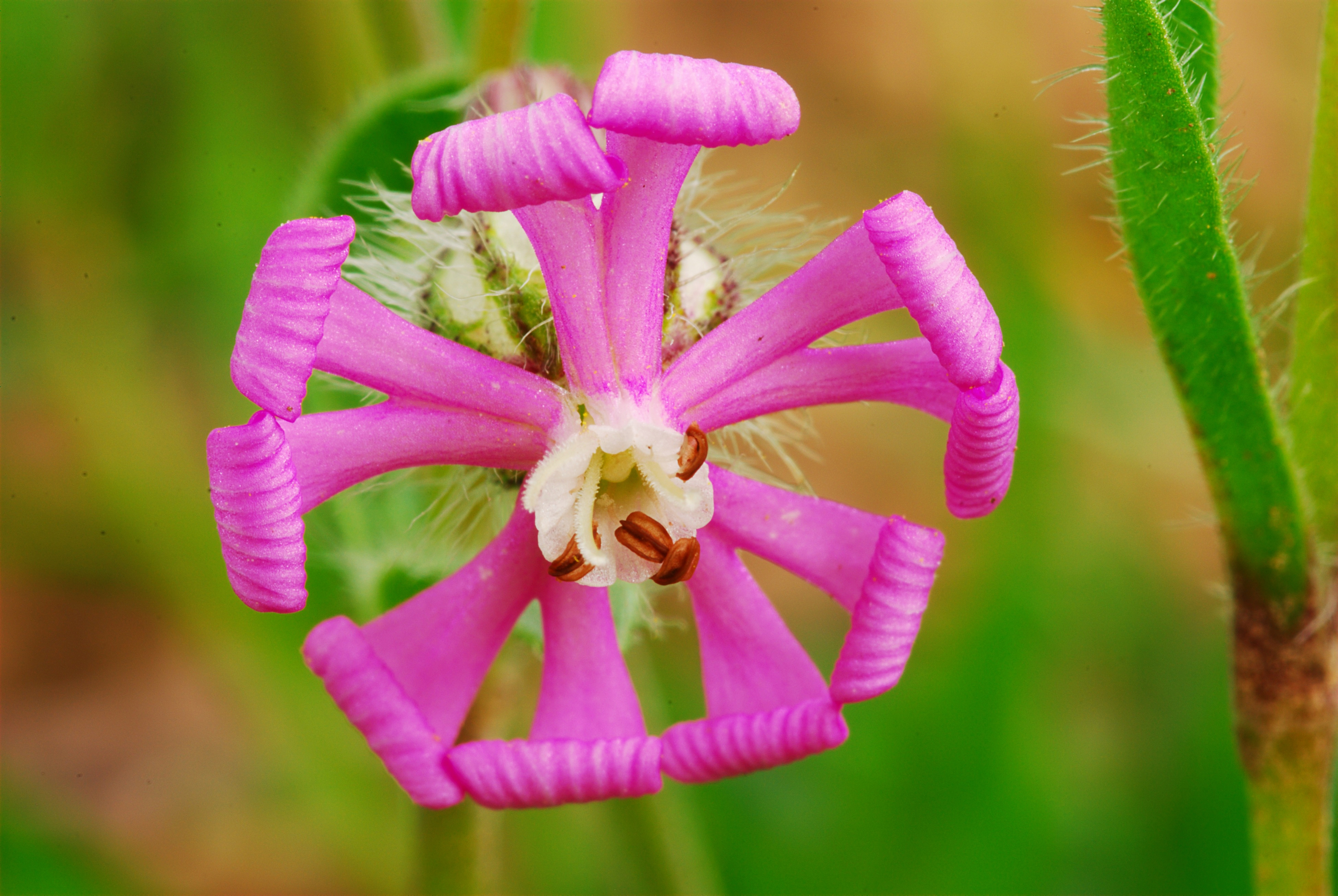 Silene colorata, Monfragüe, Extremadura, Spain.